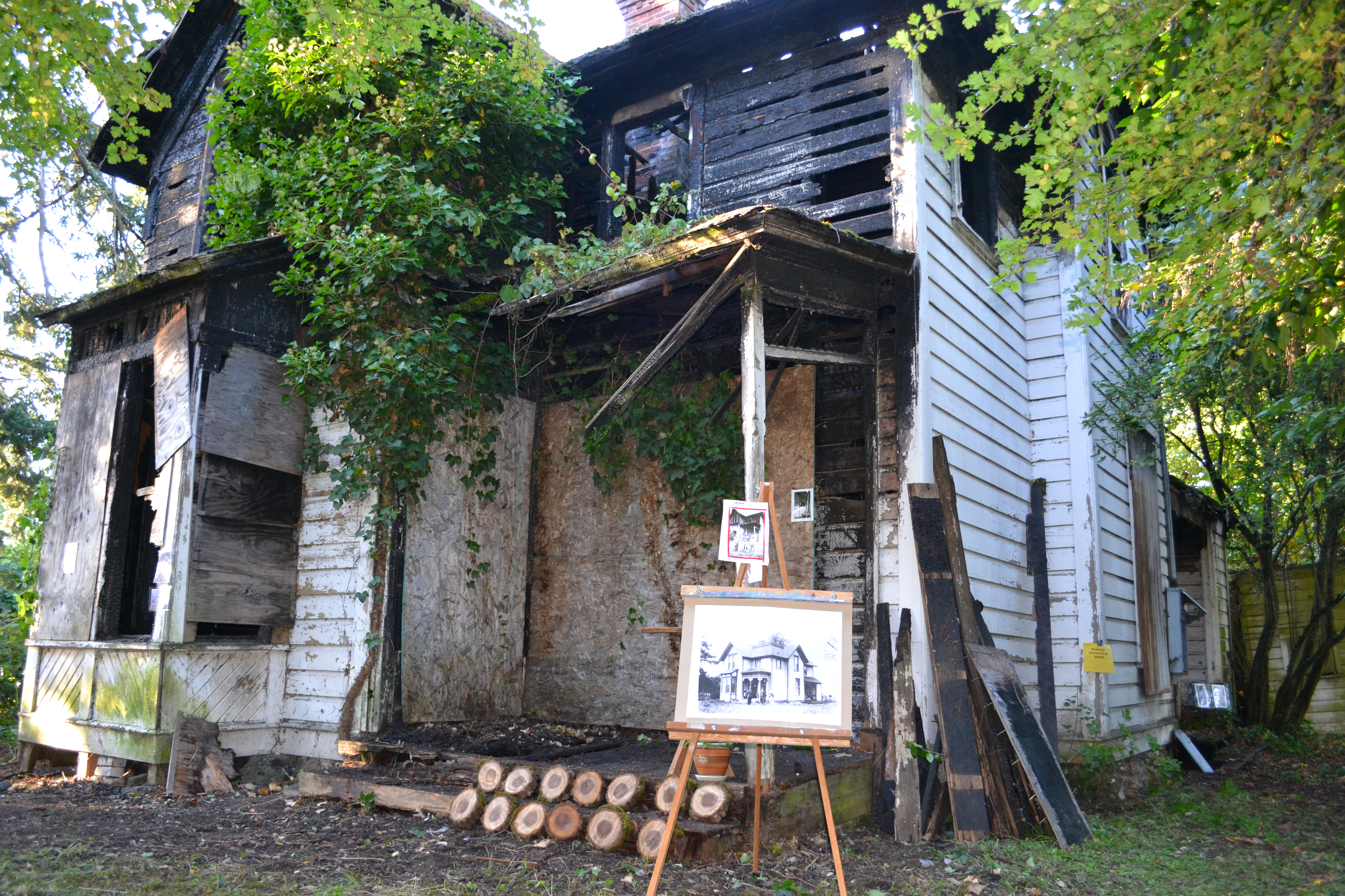 A chance for Brattain and Hadley family and community members to say goodbye to this historic home, soon to be demolished for safety reasons.